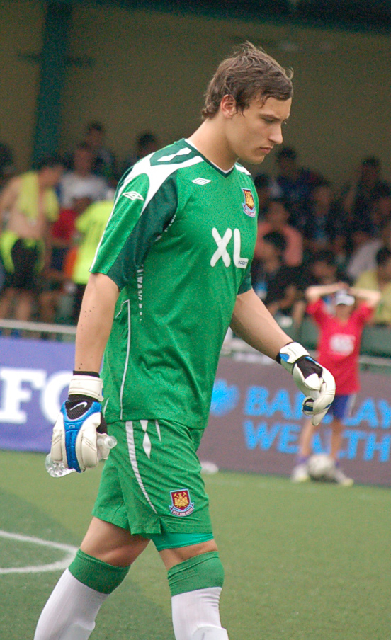 Marek Štěch participating in Hong Kong Soccer7